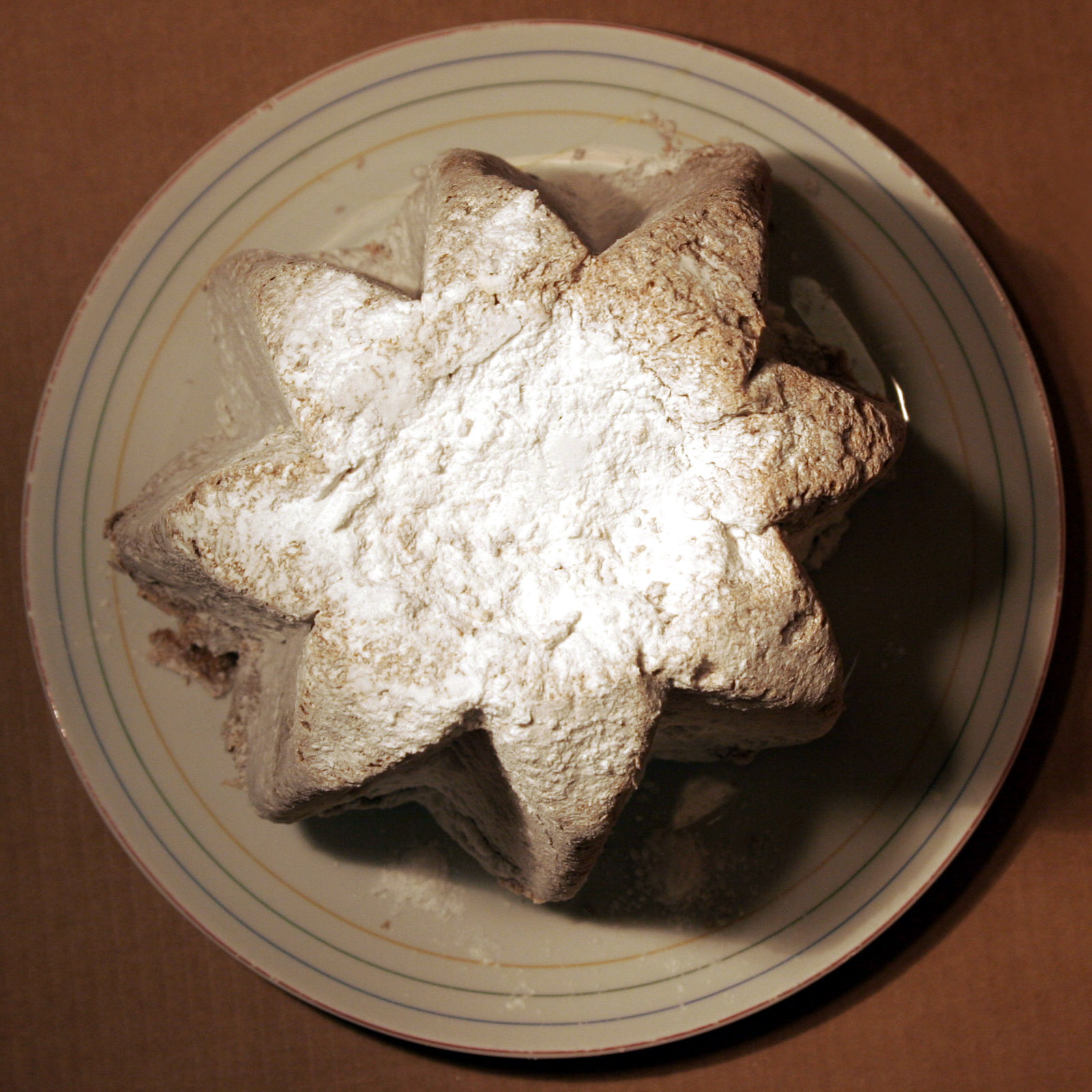 An italien Pandoro cake. Top view